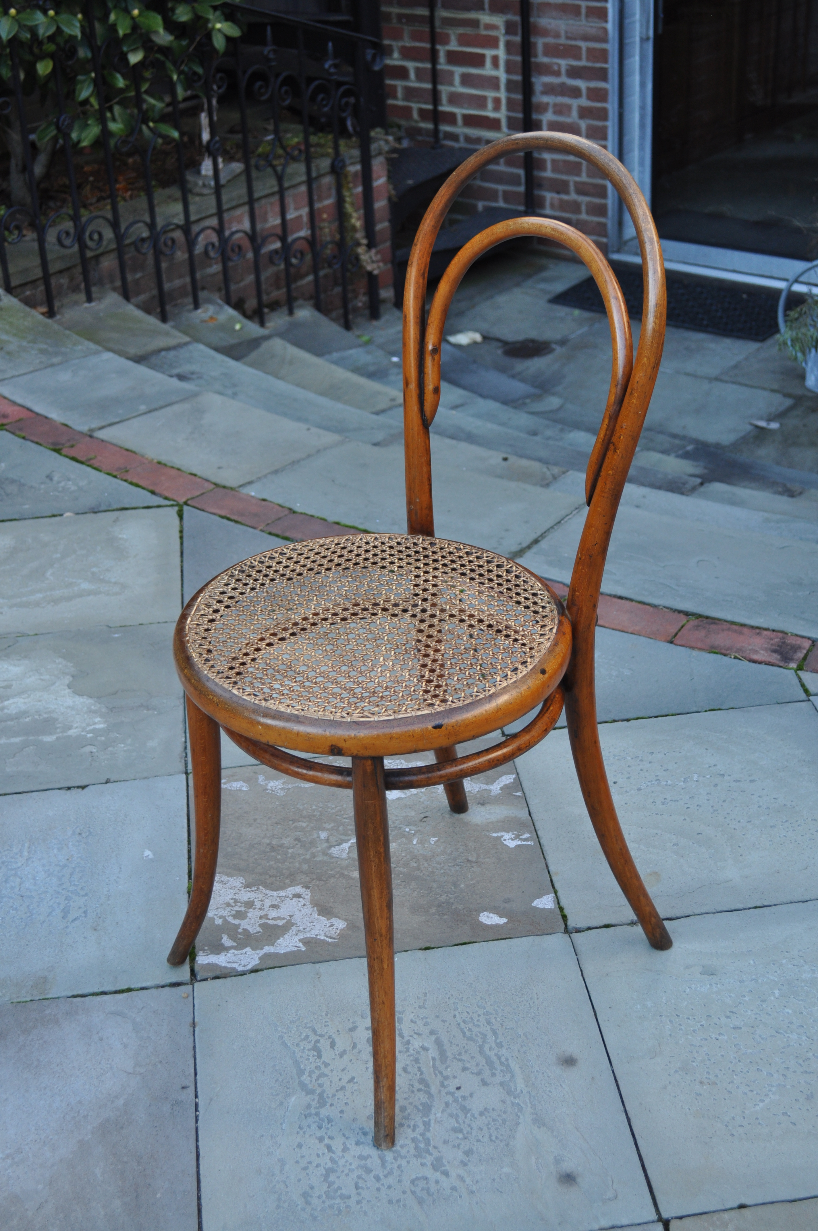 Thonet Chair No. 14 - design created in 1859